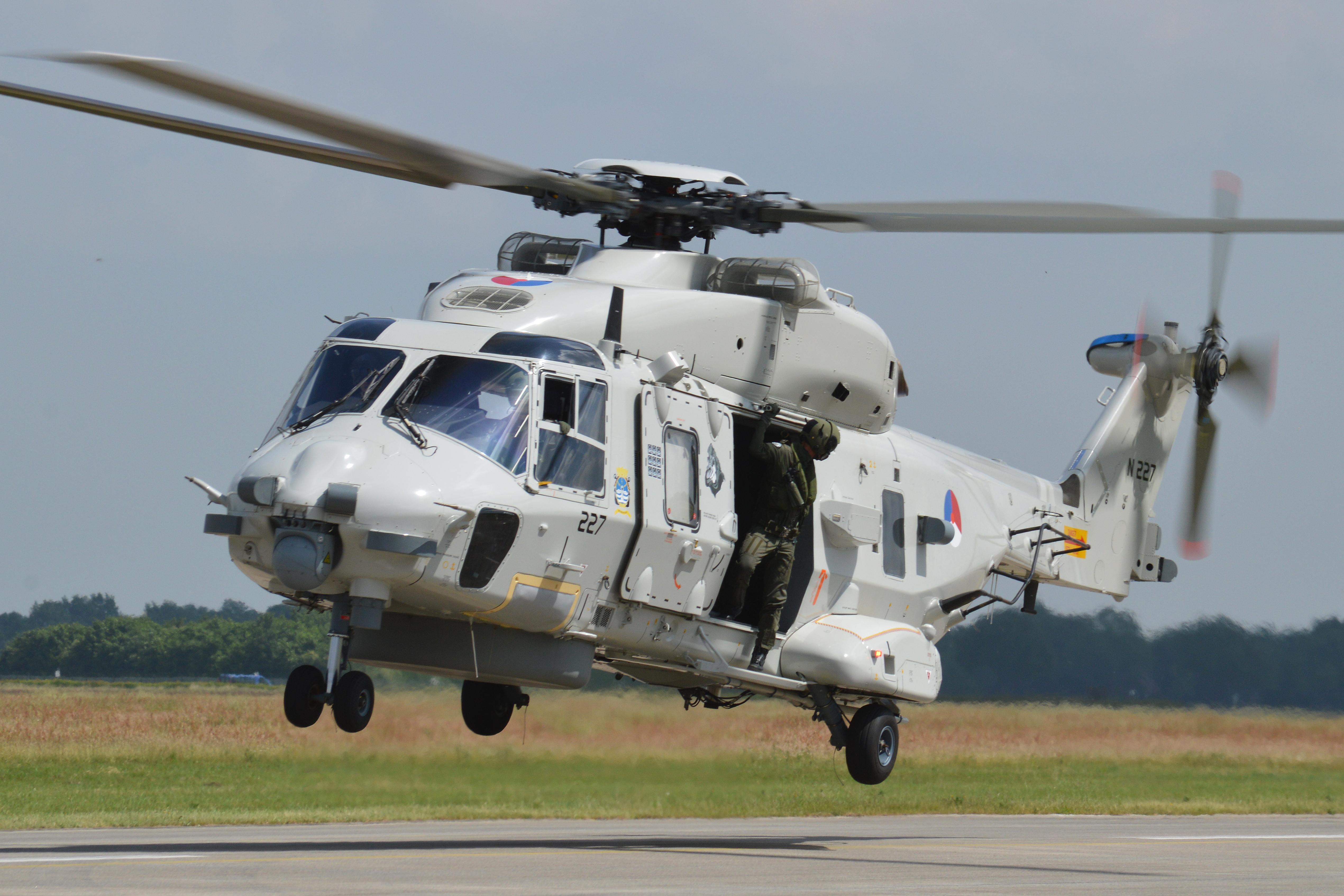 This Dutch Navy NH-90 brought in some VIPs for the '100th Anniversary of Dutch Military Aviation' airshow, then moved to the main static display. It is seen here lifting off to reposition. Operated by 860sqn (MARHELI). c/n 1227, l/n NNLN07. Volkel Airbase, Netherlands. 14-6-2013